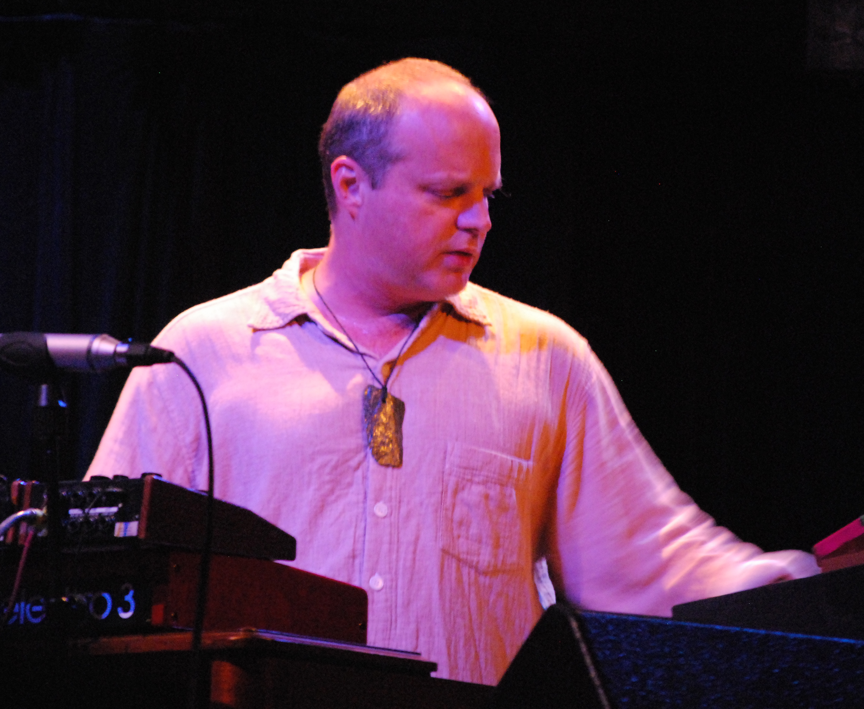 John Medeski. Concert with Medeski, Martin and Wood, Treibhaus Innsbruck 2010